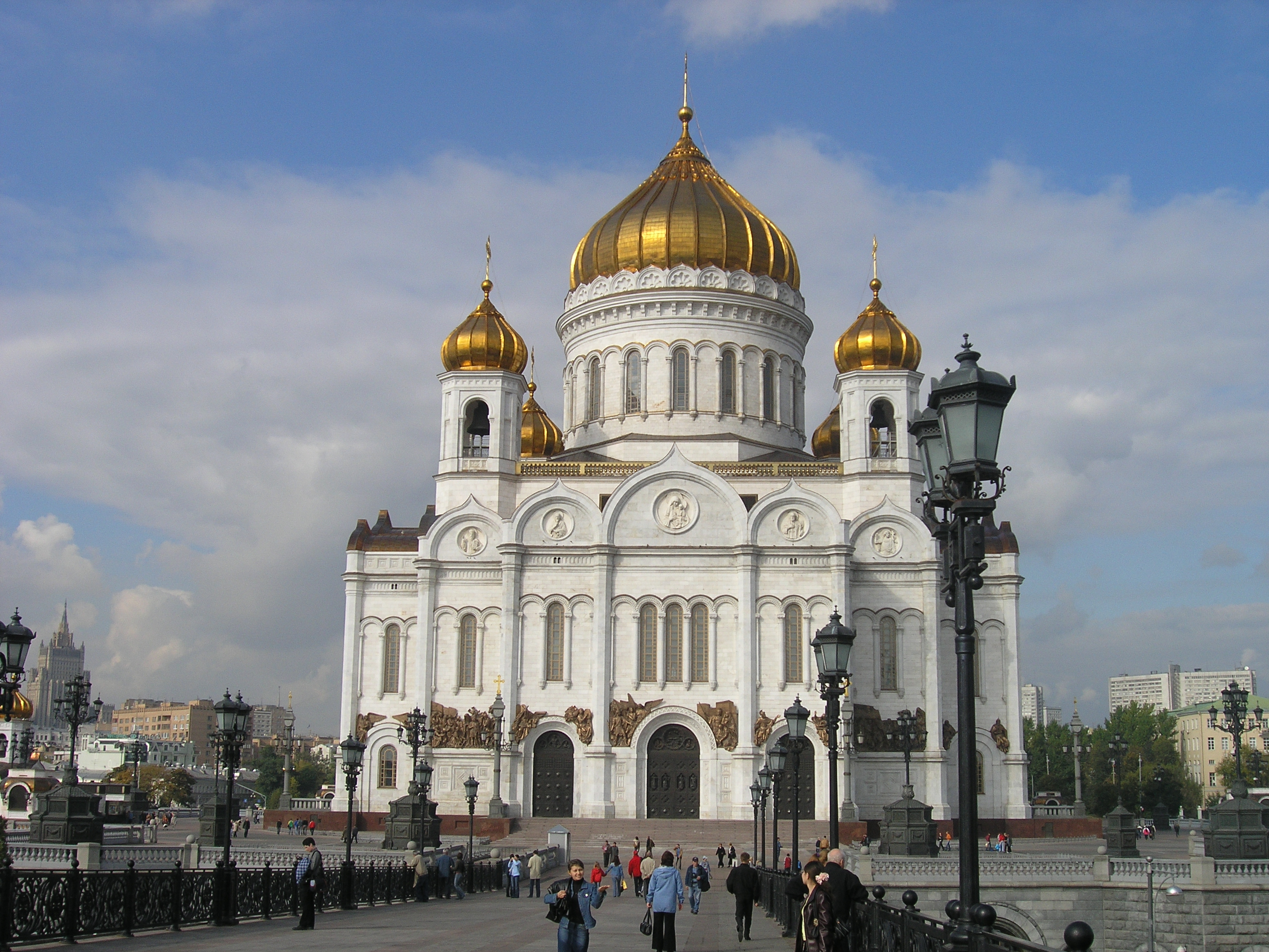 Cathedral of Christ the Saviour. Moscow, Russia.